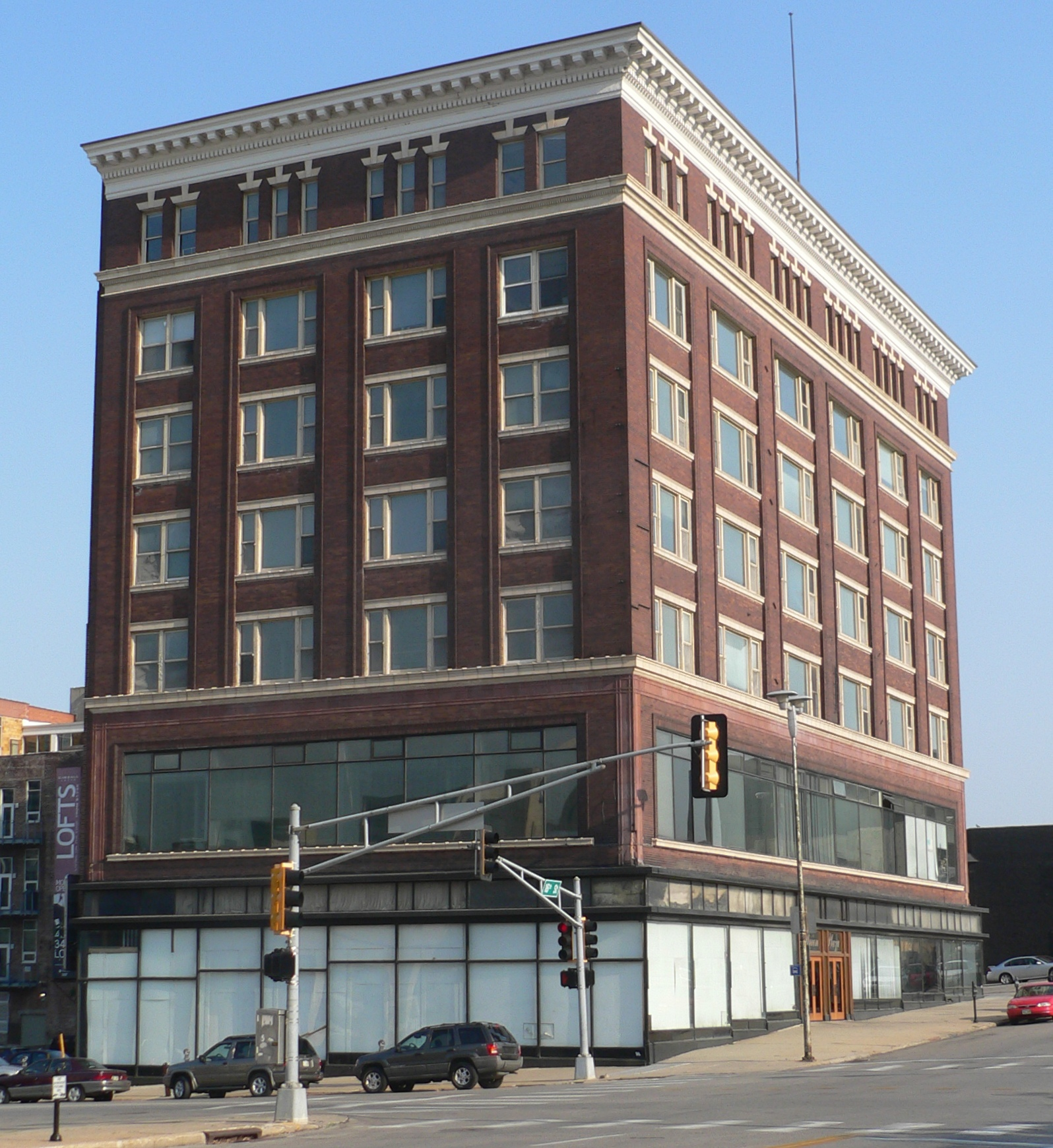 Kennedy Building, located at 1517 Jackson Street (southeast corner of 16th and Jackson) in Omaha, Nebraska; seen from the northwest. The sunlit west side faces 16th; the shaded north side faces Jackson.